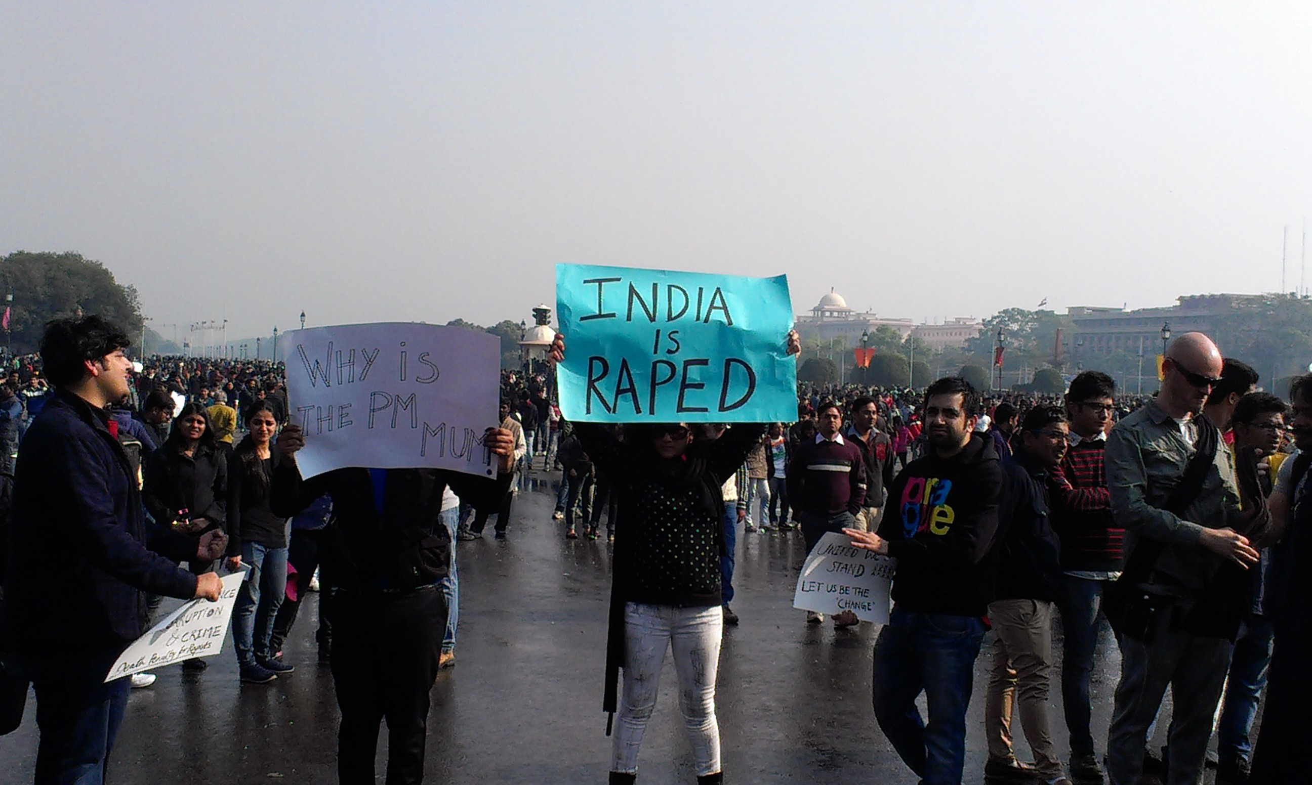 December 22, students protest the rising violence against women, Raisina Hill/ Rajpath; the morning saw as many women as men come out for this spontaneous march.